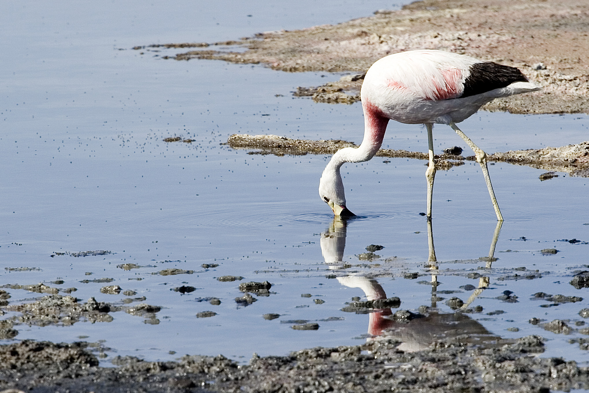 Andean Flamingo (Phoenicopterus andinus) in Salar de Atacama, Norte Grande, Chile.